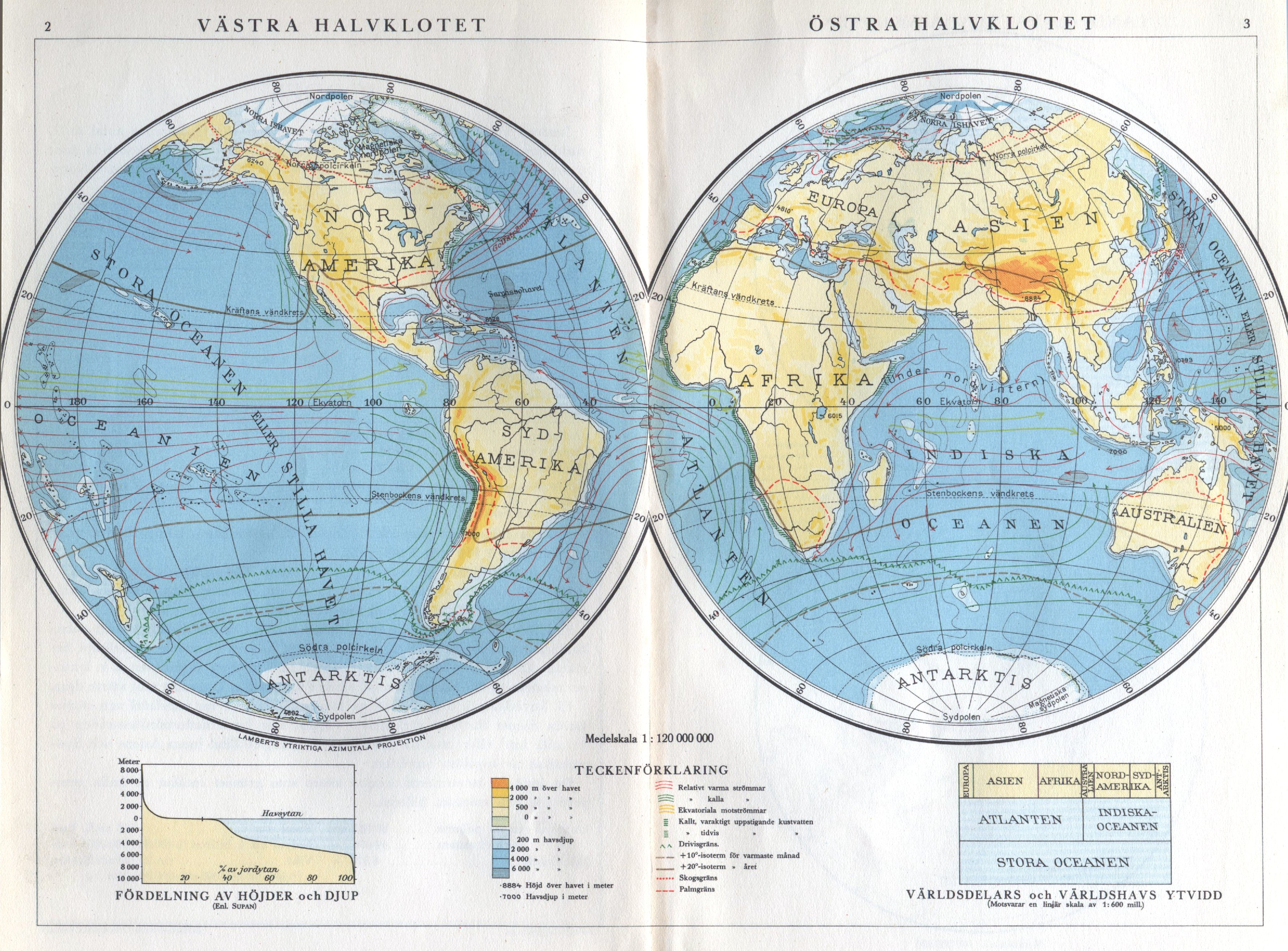 Map of the world, from Svensk världsatlas (Swedish World Atlas, 1930).